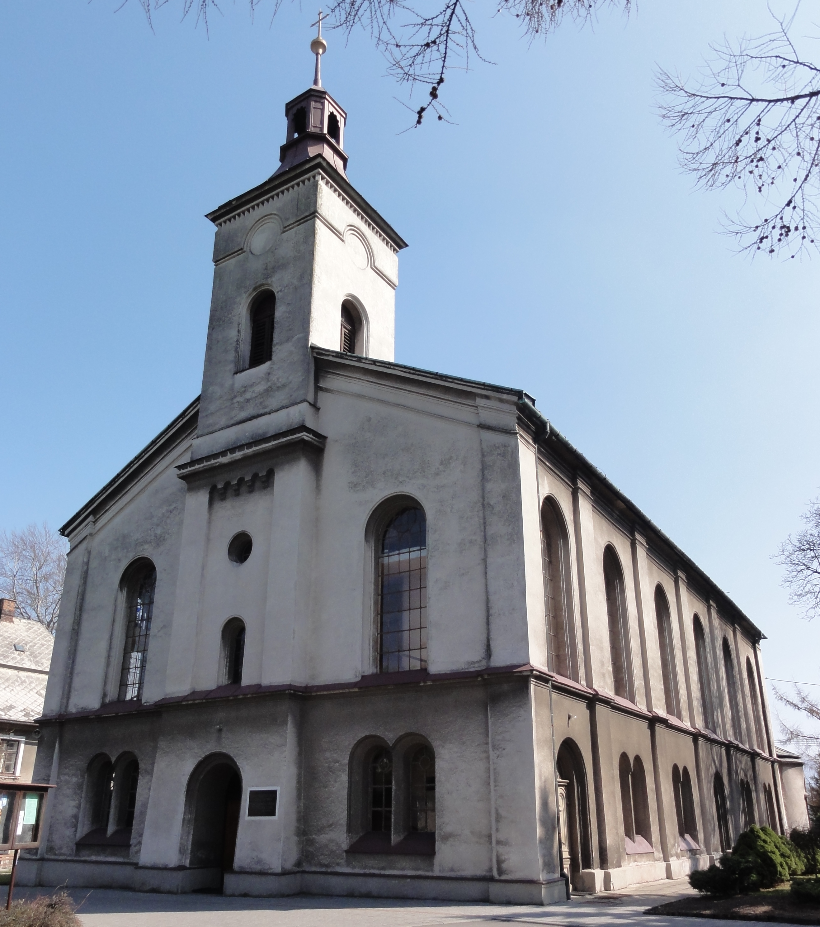 Lutheran Church in Goleszów